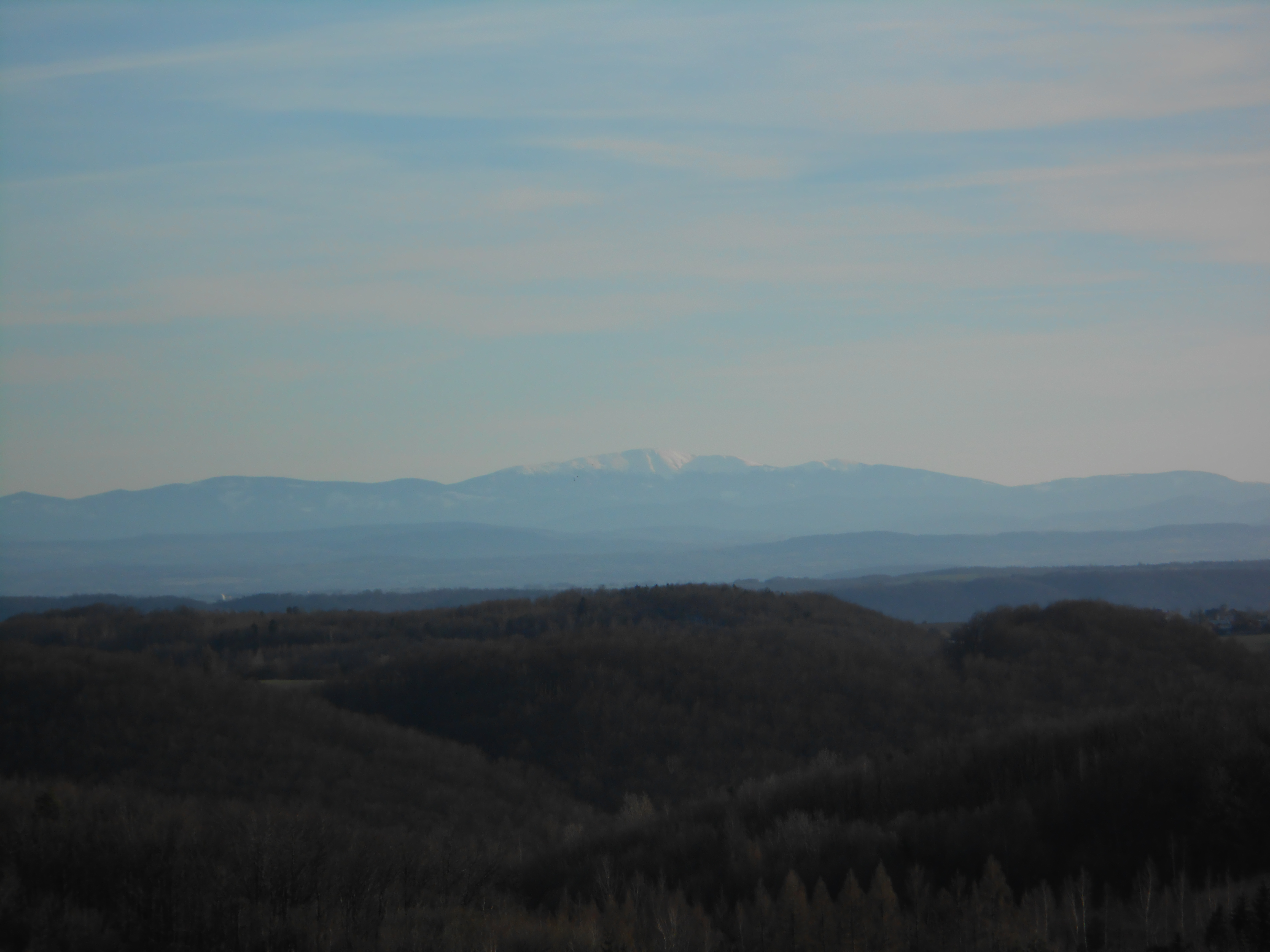 Witches Mountain (Babia Góra), view from hill 502